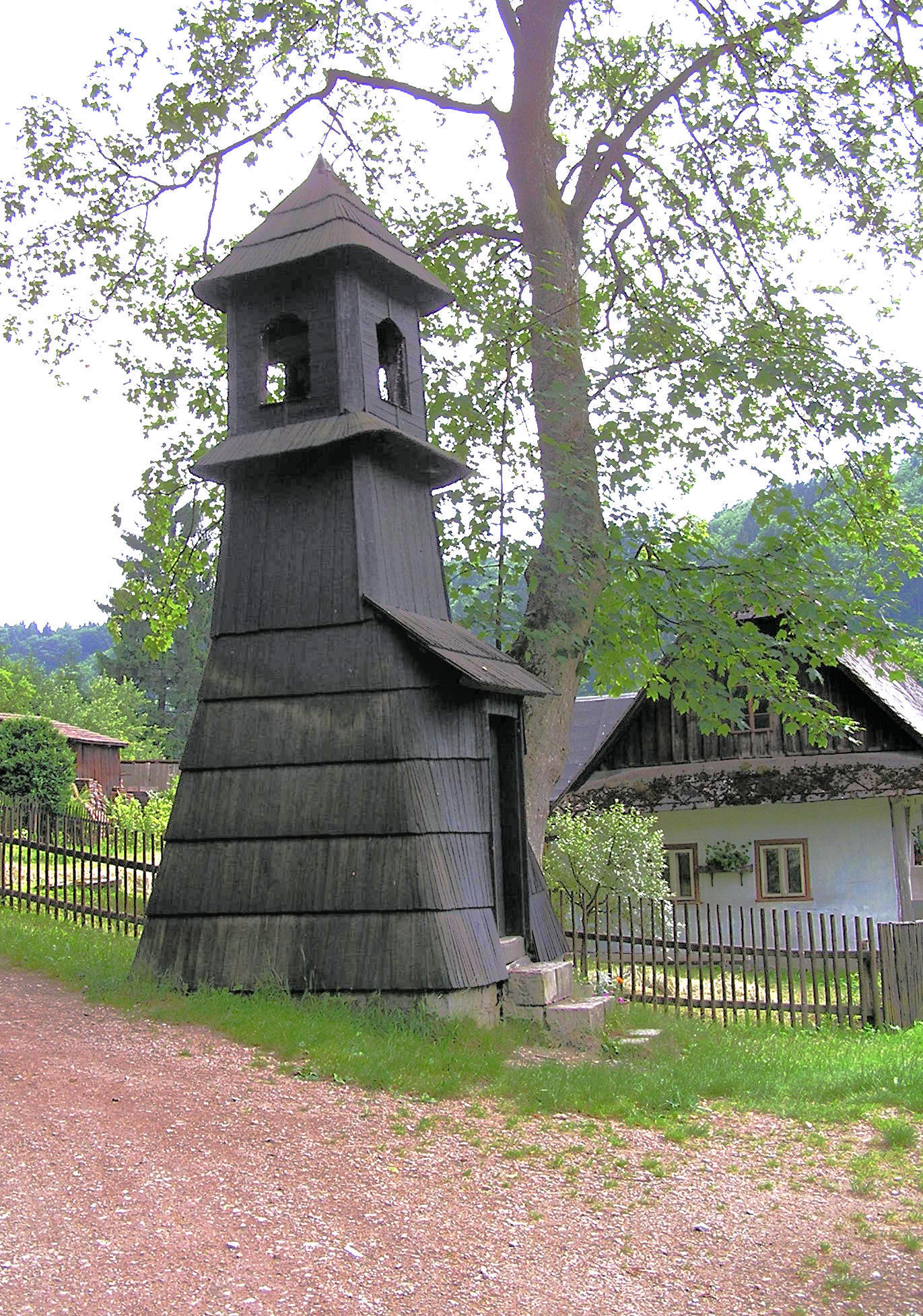 Bell Tower in Litice nad Orlici